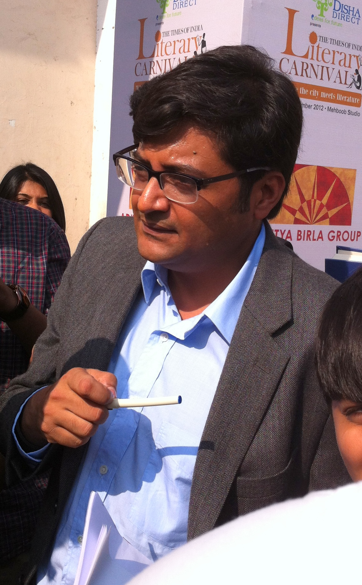 Arnab Goswami at Times Literary Carnival 2012 at Mehboob Studio,Bandra, Mumbai.